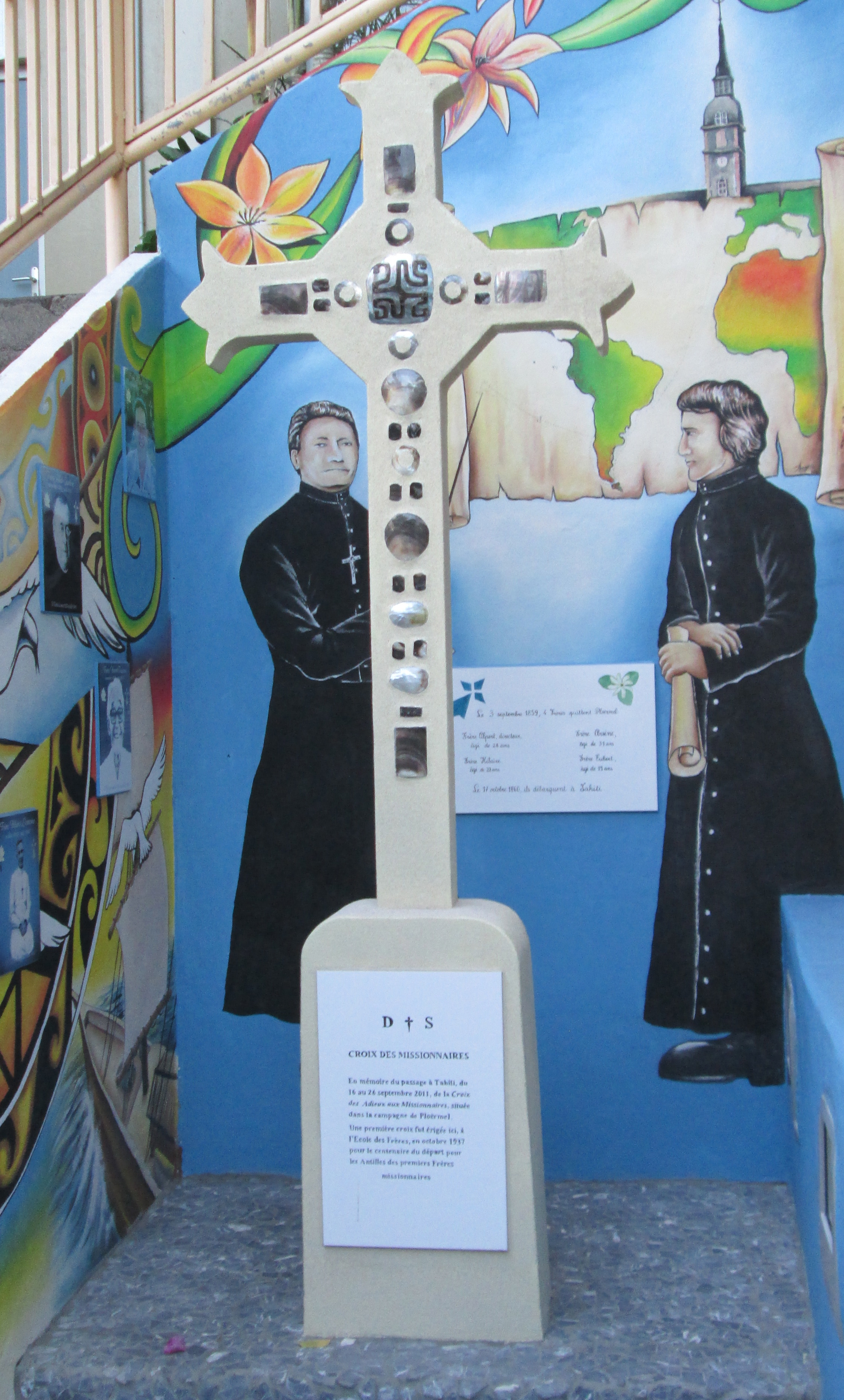 fresque représentant les frères fondateurs